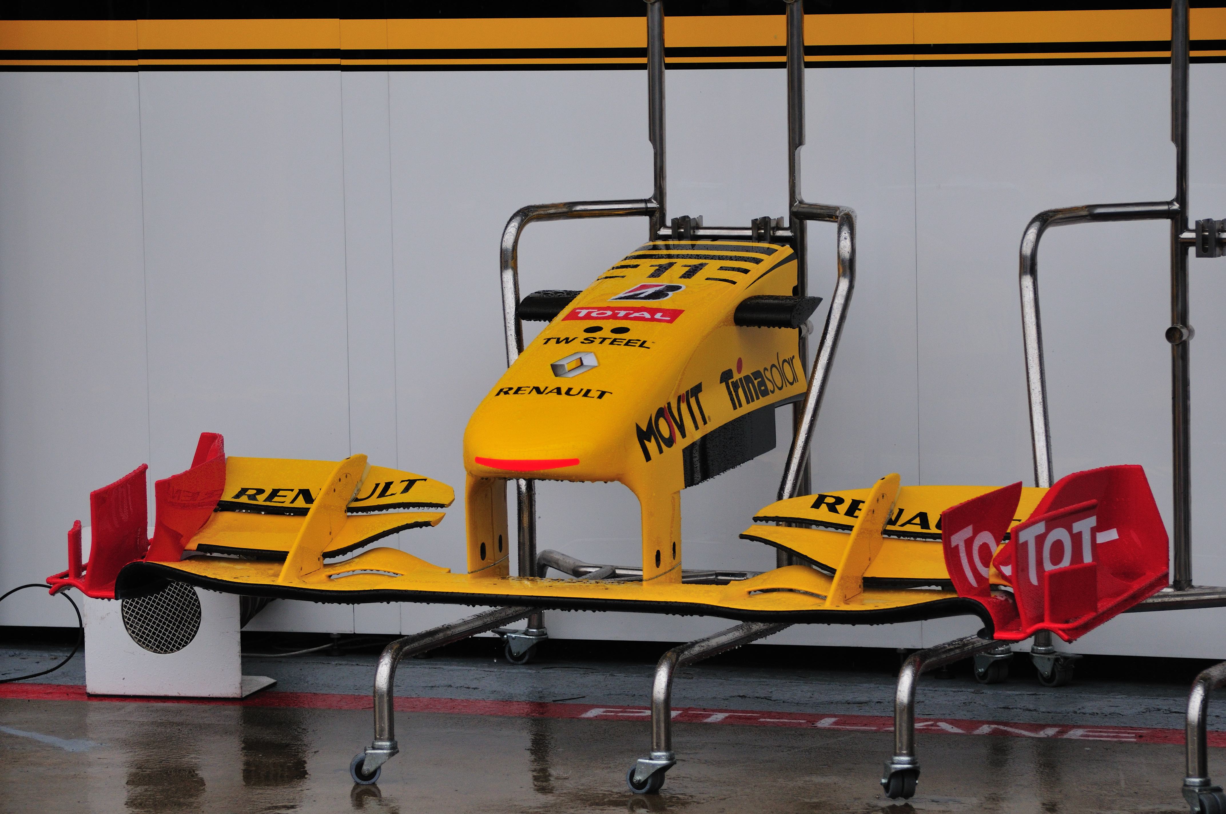 Nose cone and front wing of Robert Kubica's Renault R30 at the 2010 Canadian Grand Prix.